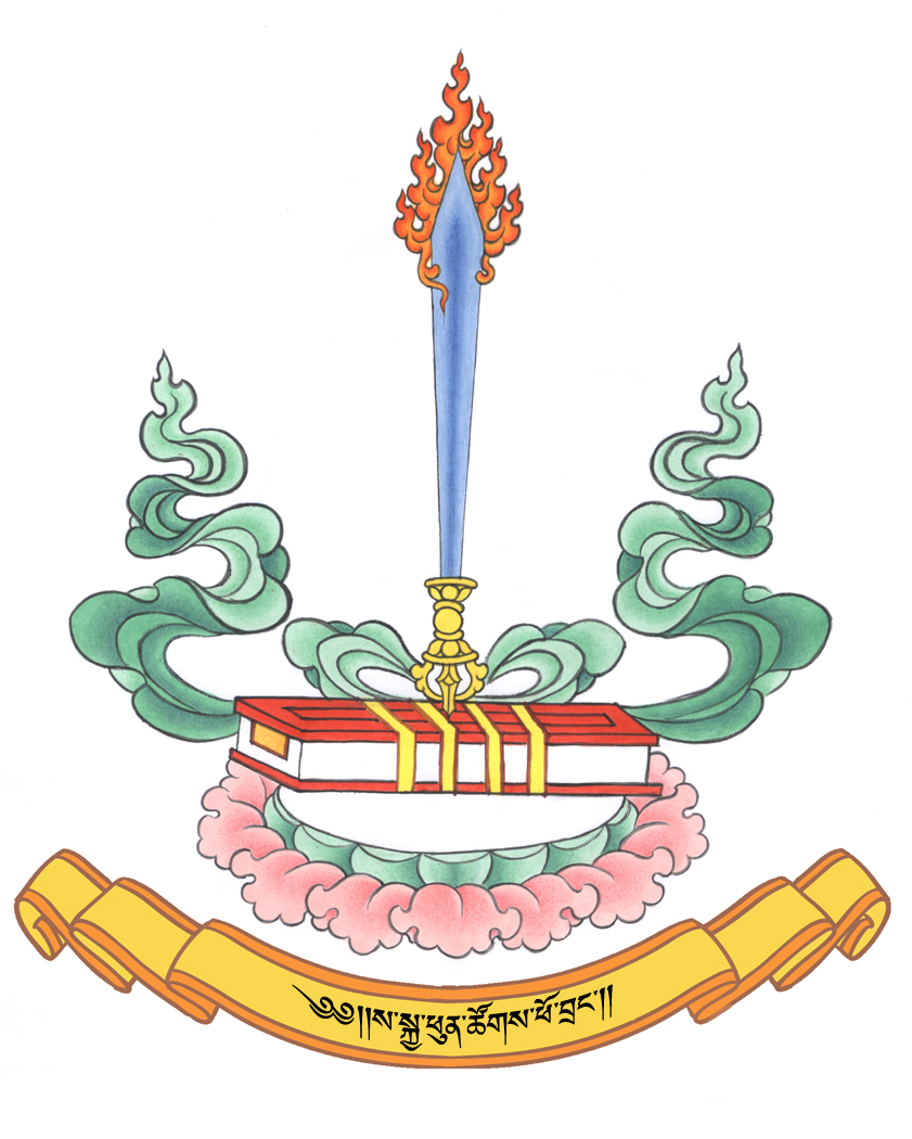 Seal of the Phuntsok Phodrang branch of the Sakya Khon family.